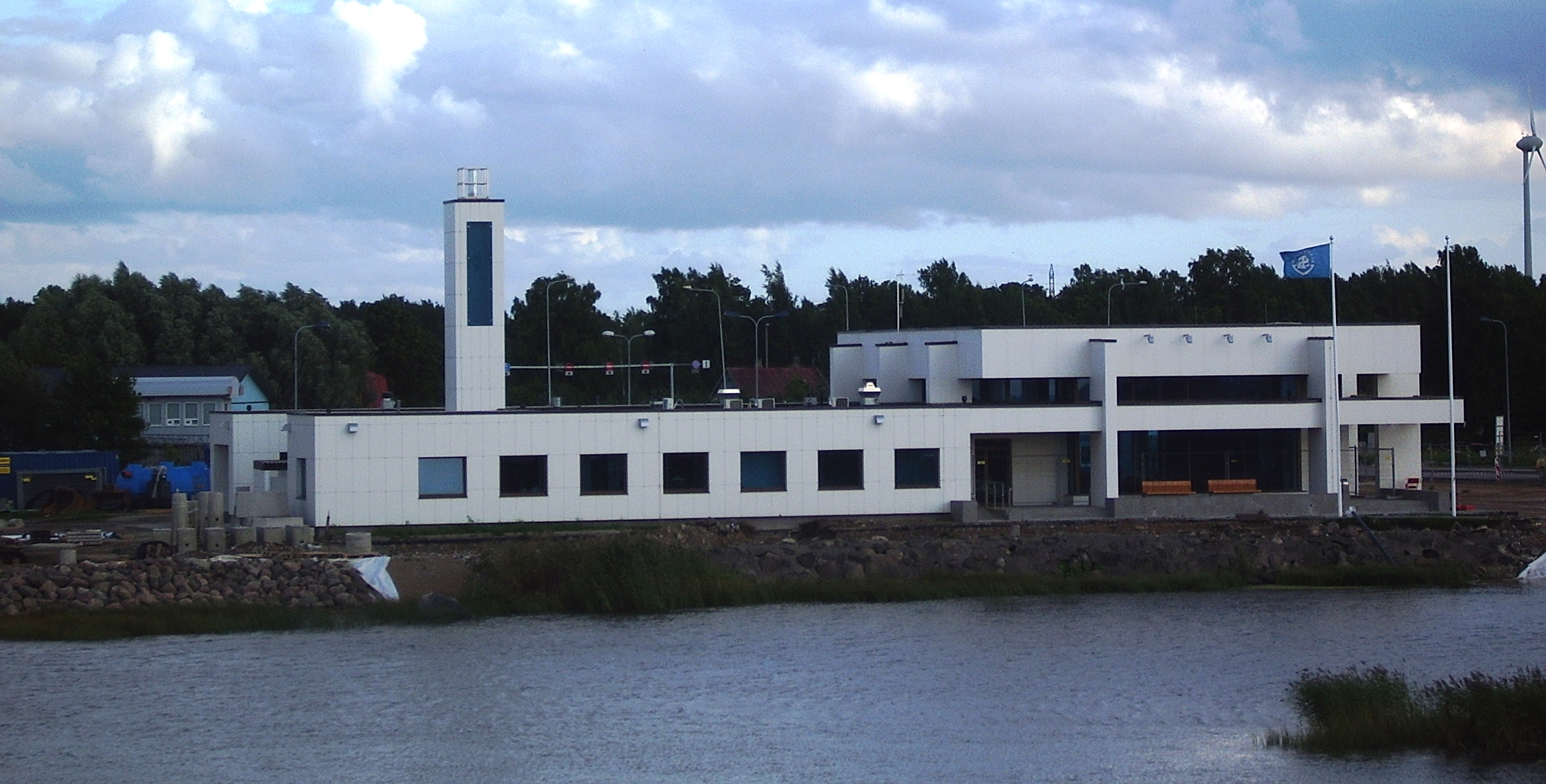 House in Virtsu port after renovation